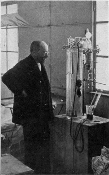 German physiologist Nathan Zuntz 2010 on Teneriffa.